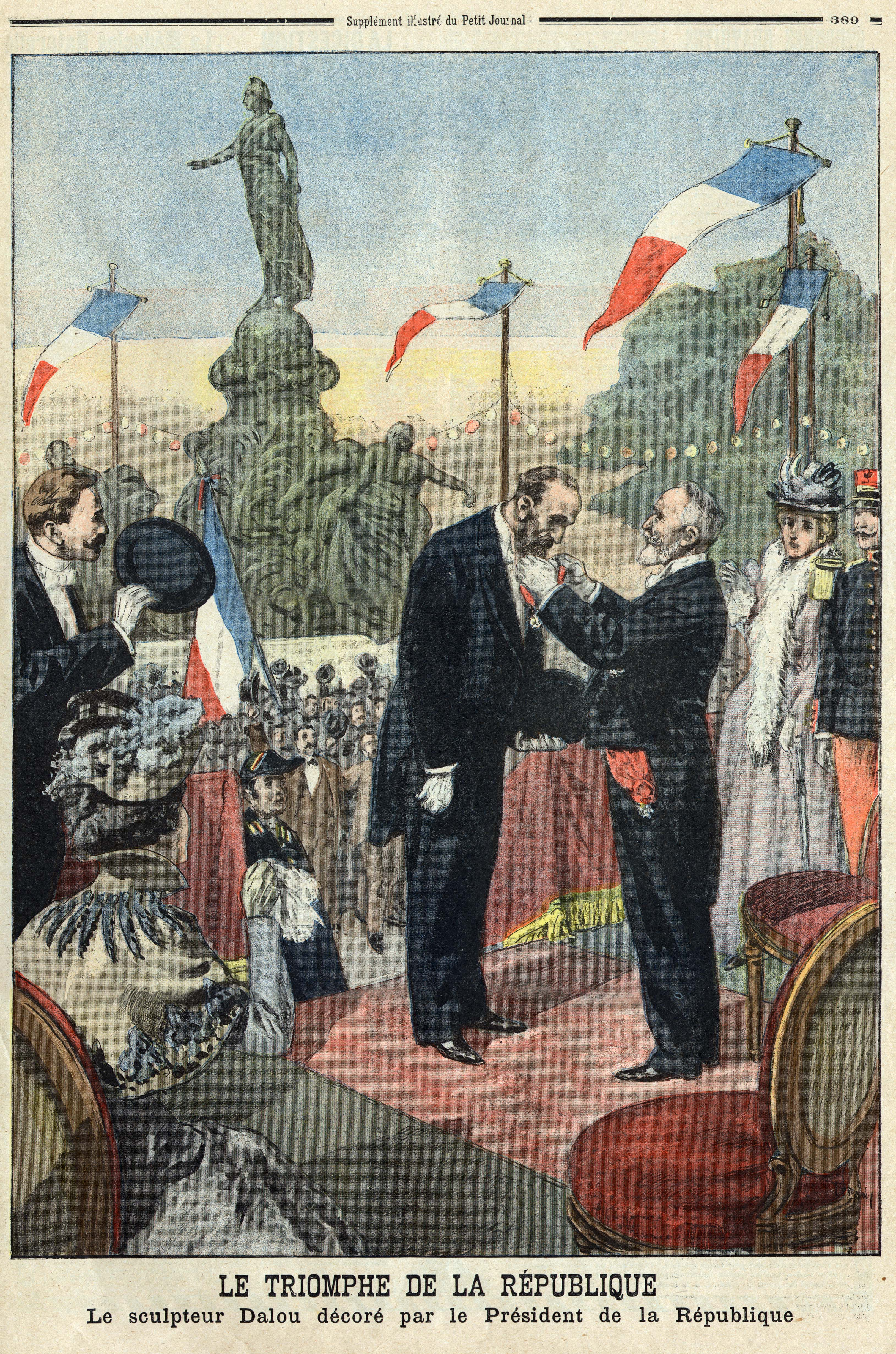 Jules Dalou being awarded commander of the Legion of honour by Emile Loubet during the inauguration of the "Triumph of Republic", Place de la Nation in Paris, november 20th 1899.